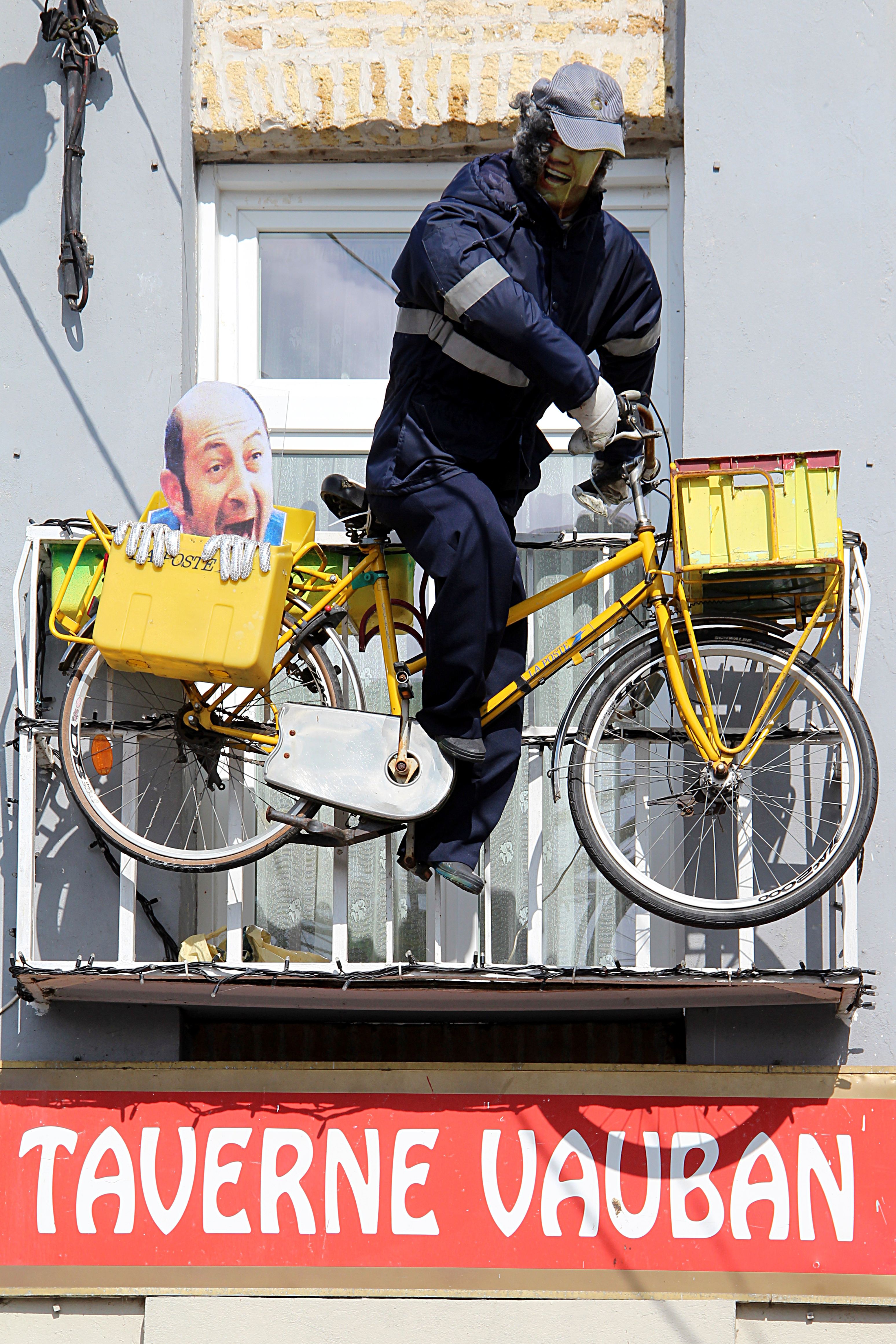 Shop sign of the taverne "Vauban", located at 48 rue du Port in Bergues (Nord department, France).